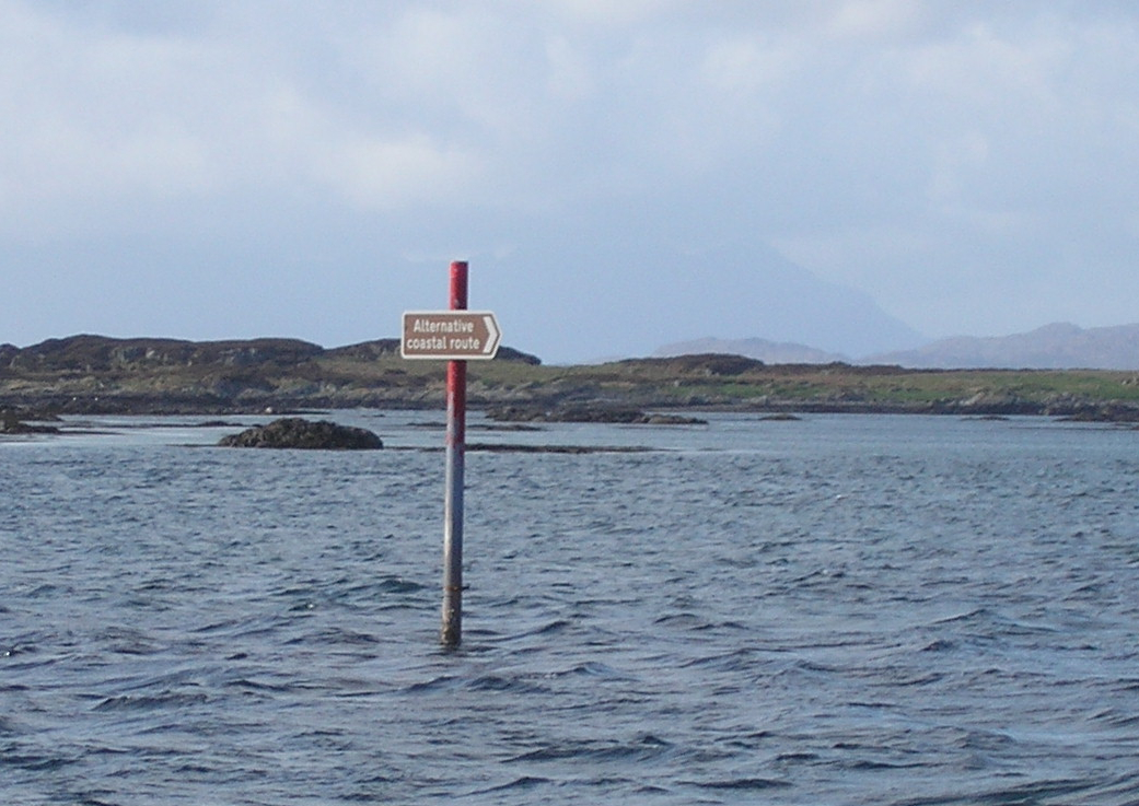 Risible direction indicator. A road sign has been placed on a channel indication pole.